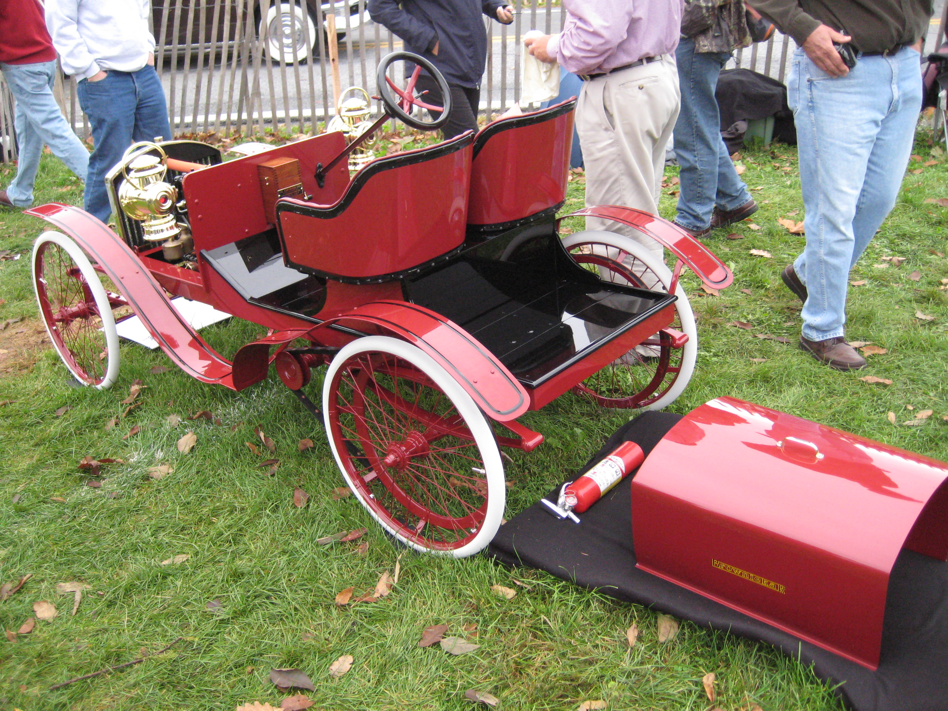 Notice the belt drive to each rear wheel. Seen at the judged car show, AACA Eastern Region Fall Meet, Hershey, Pennsylvania, October 2009